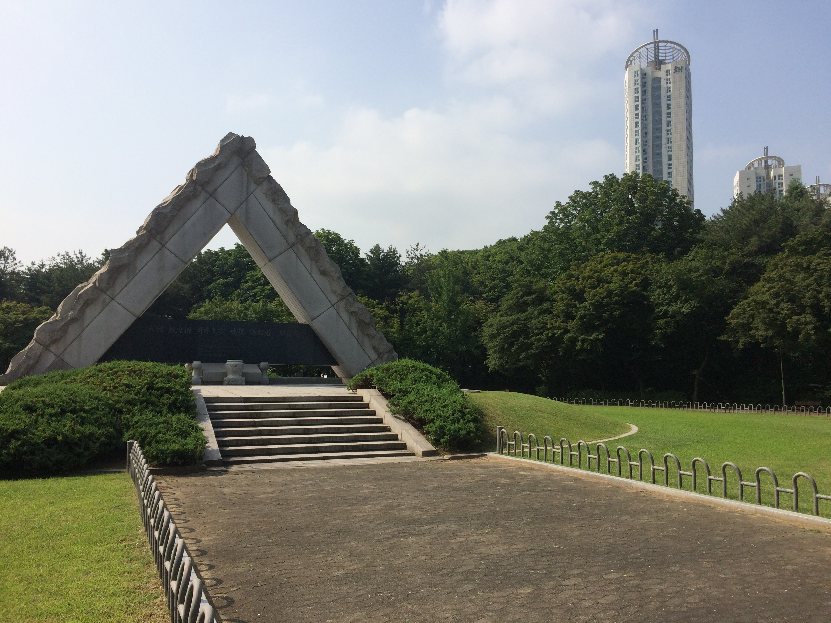 Korean Air Flight 858 Memorial, Yangjae Citizens' Forest